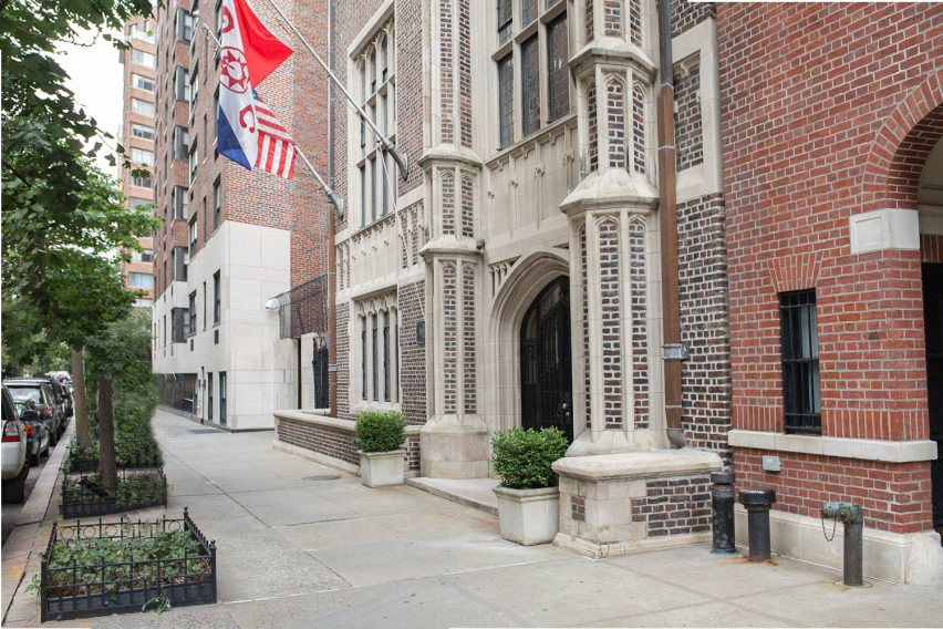 The Explorers Club Headquarters, a six-story Jacobean revival mansion on East 70th Street, in New York City